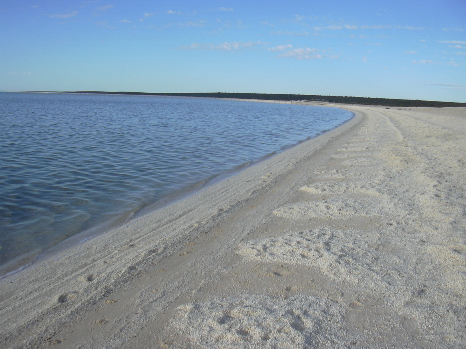 Shell Beach, Shark Bay/Western Australia